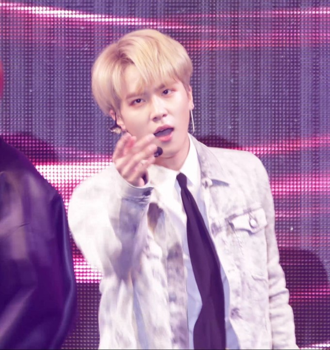 Kim Dong-han performing at the ETOOS concert on 22 Feb 2018